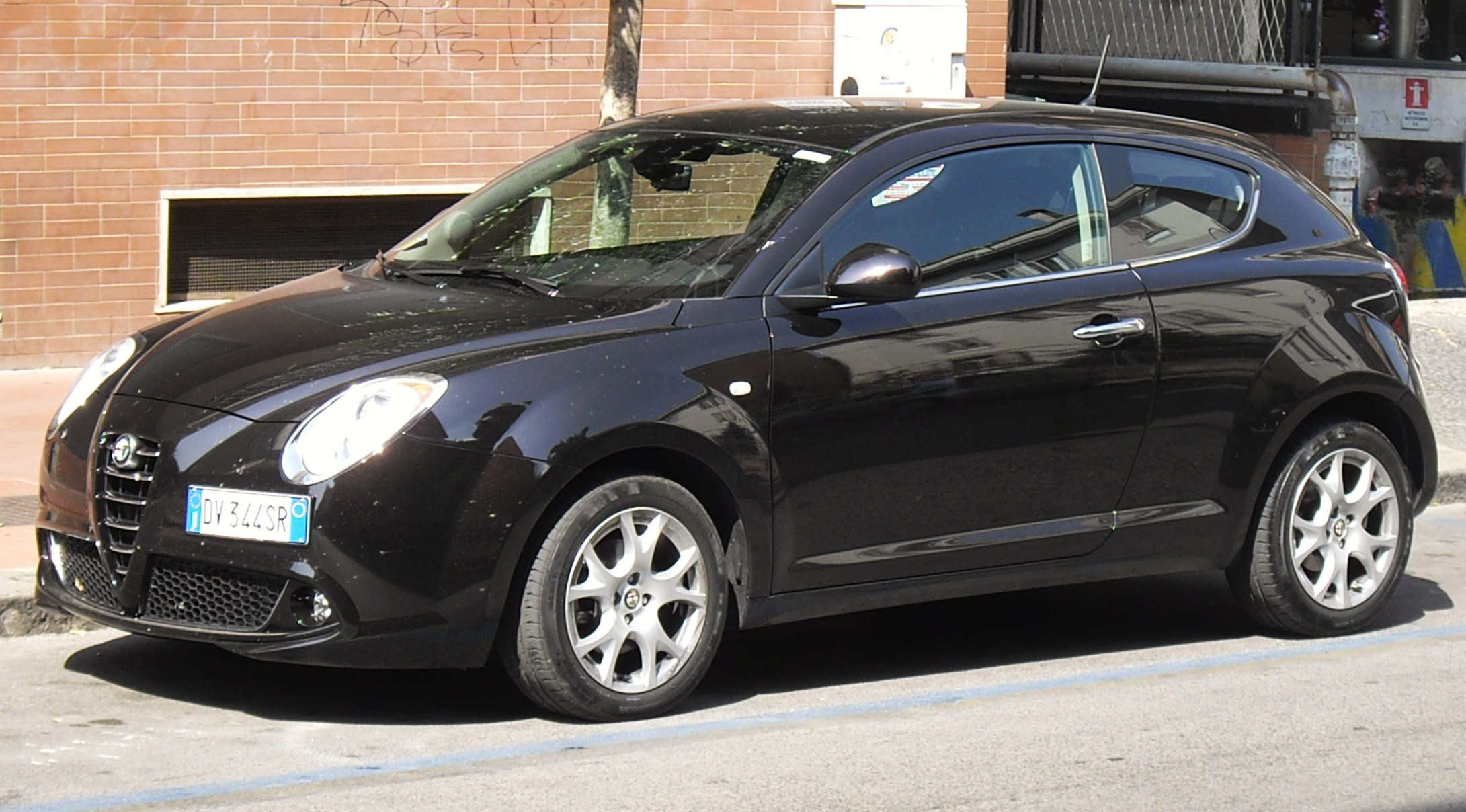 Alfa Romeo MiTo